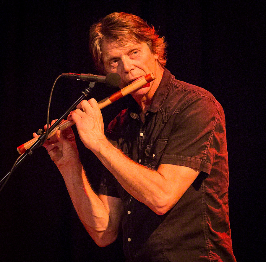 Steinar Ofsdal performs with Skranglebein at the stage of Cosmopolite. The concert took place on 10. September 2016 in Oslo. This was the final concert on the last night of the SPKRBOX-festival.Lineup:Per Olav Hoff Mydske (vocal)Jens Linell (drums)Magnus Jr Larsen (double bass)Tuva Syvertsen (Hardanger fiddle)Erik Sollid (viola)Vincent Velur (organ)Steinar Ofsdal (flute)Rolf-Erik Nystrøm (saxophone)and more guests